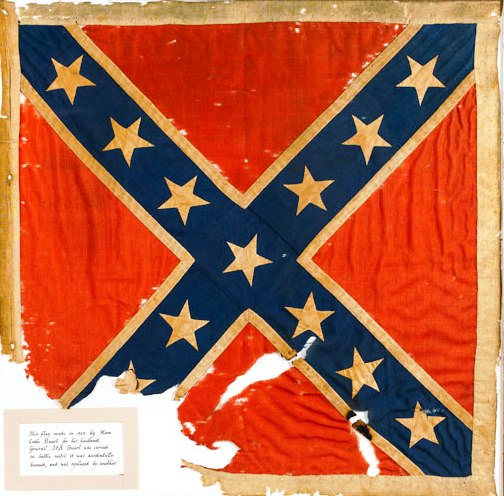 Author:anonymous Source:private collection photo